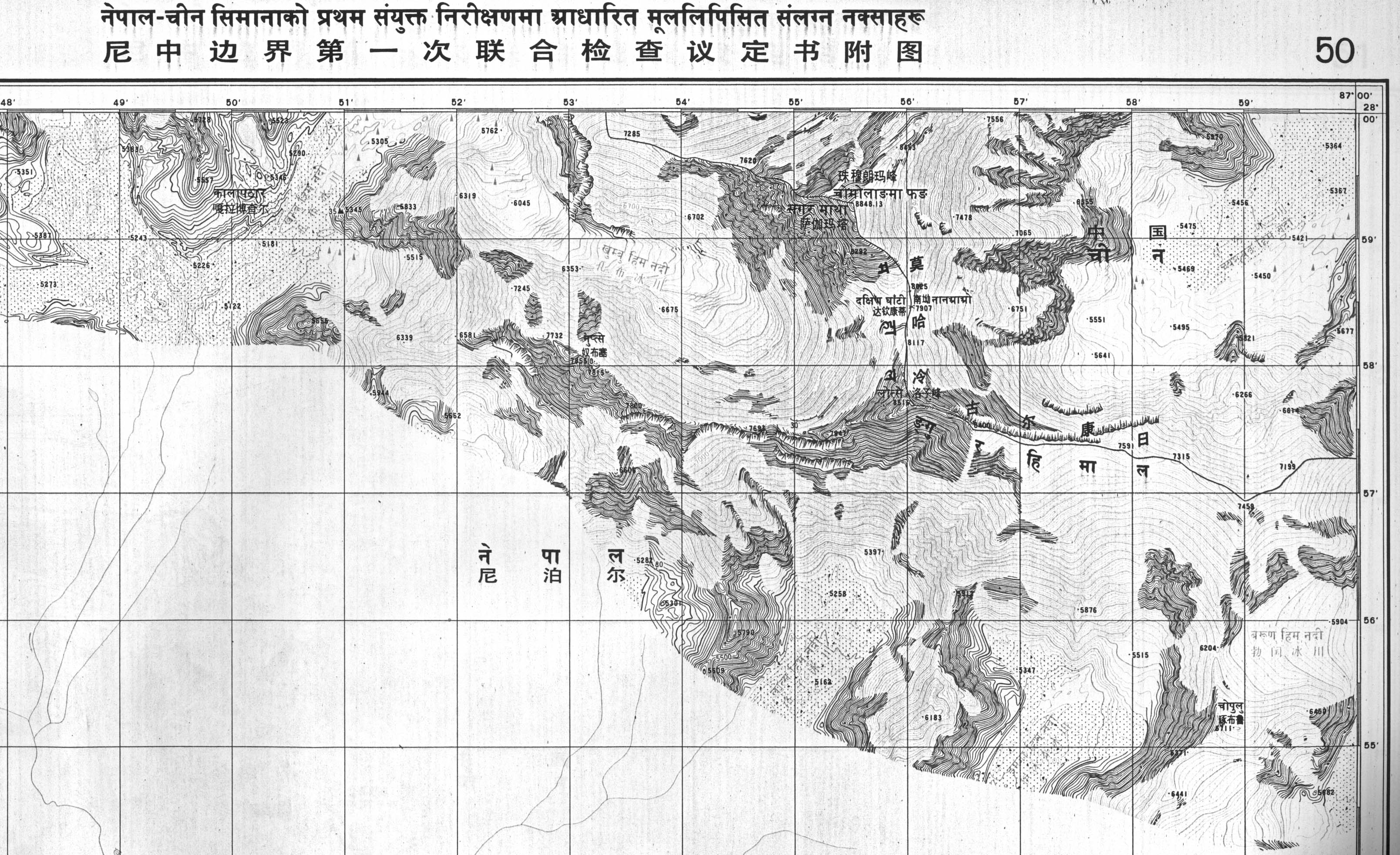 Boundary maps in the public domain published by the Survey of Nepal, sent to the UN